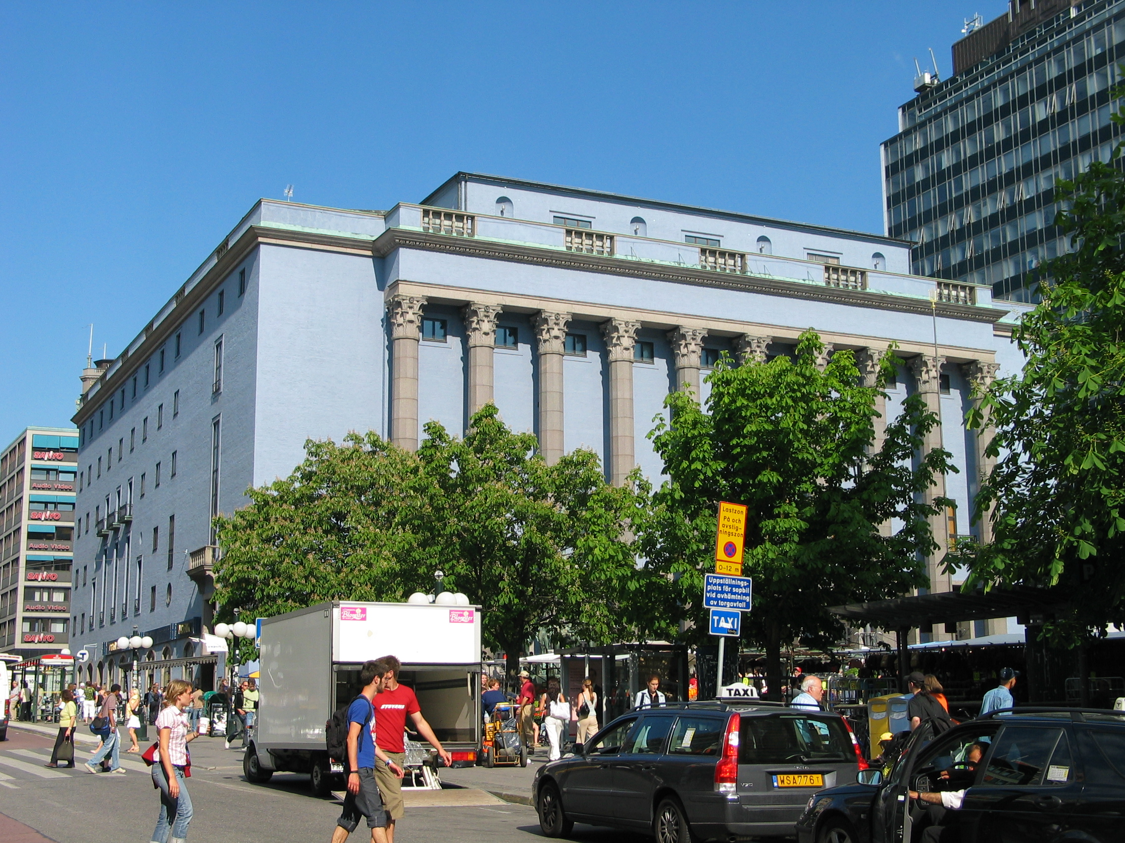 The Concert Hall, Stockholm, Sweden.